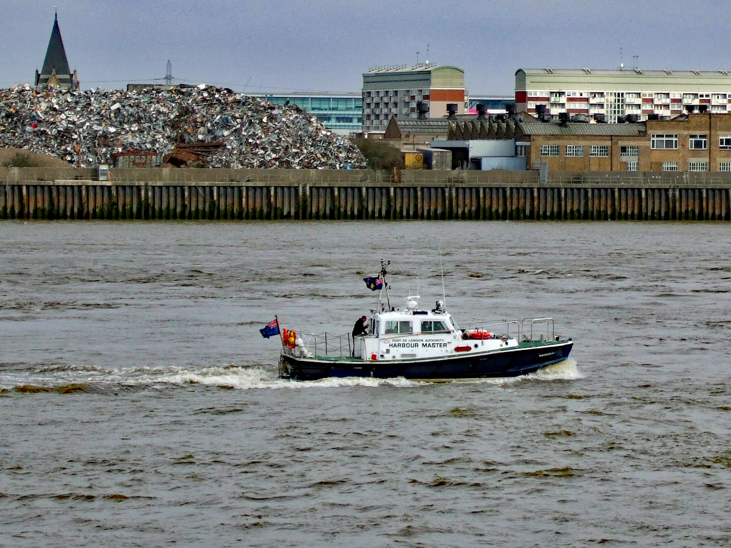 Port of London Authority boat on the Thames in East London